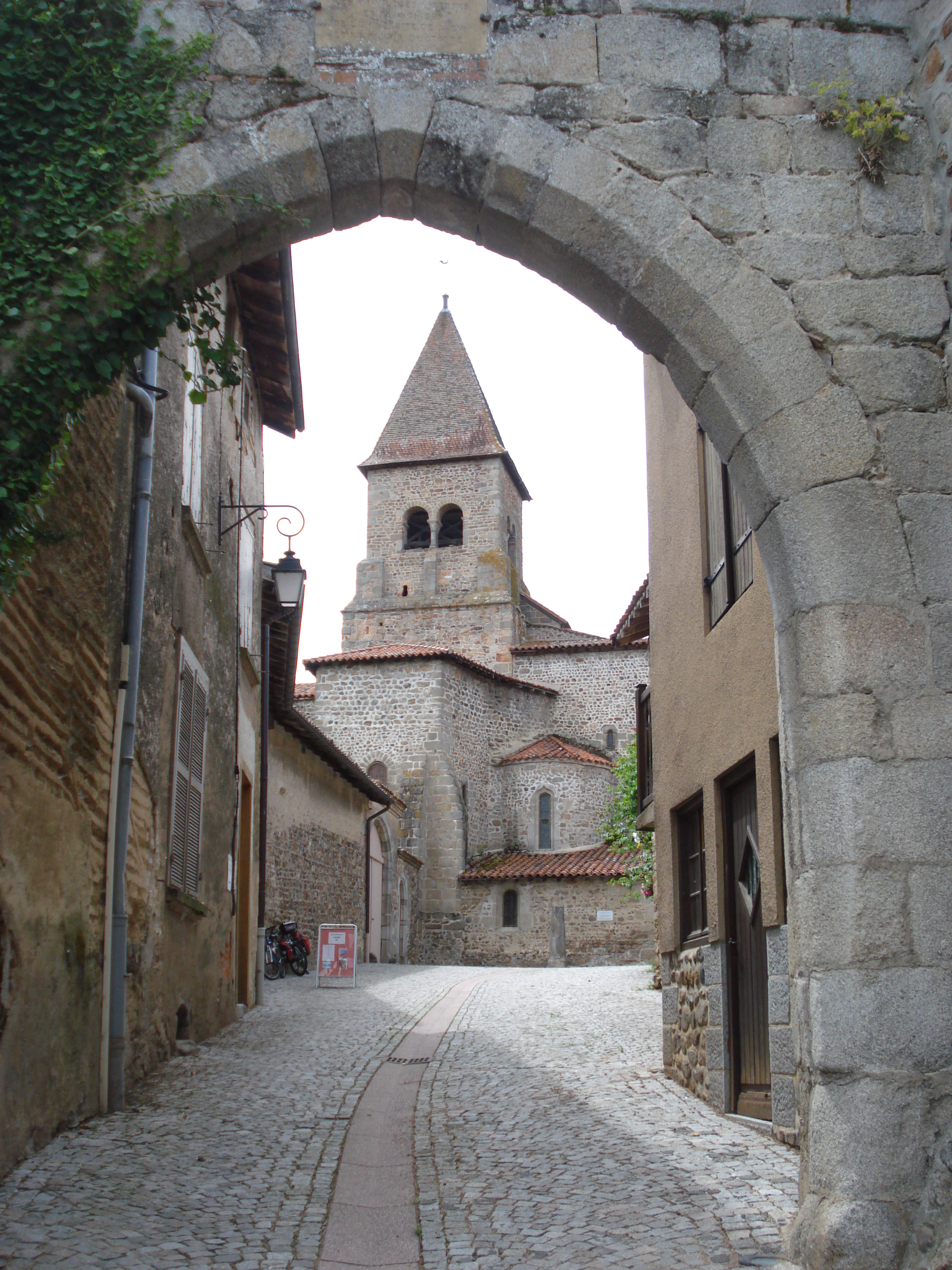 Pommiers (Loire, Fr), city gate and church tower